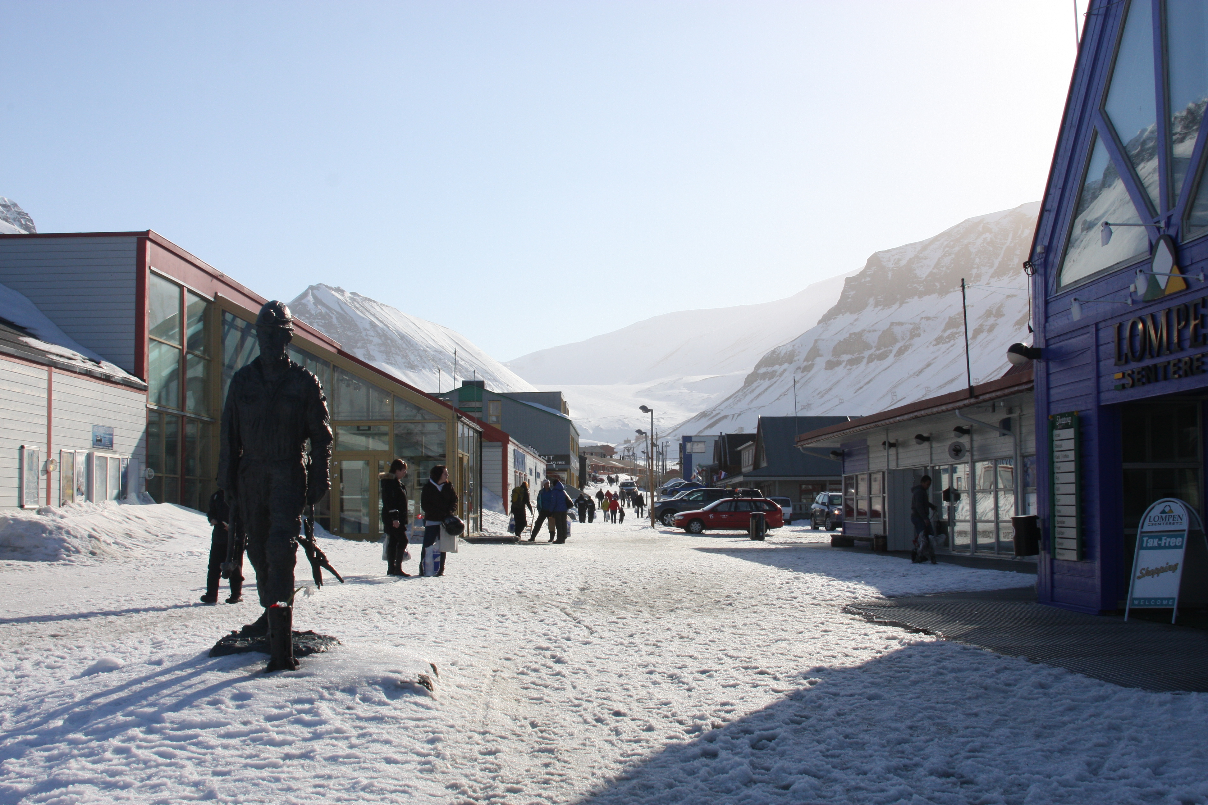 Central area of Longyearbyen